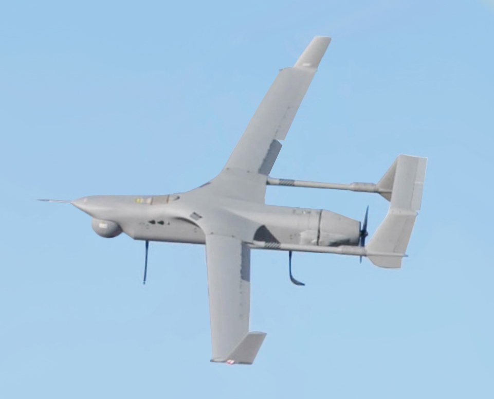 A U.S. Marines Corps RQ-21 Blackjack UAS during Weapons and Tactics Instructors Course (WTI) 1-18 at Yuma, Ariz., on Oct. 13, 2017. WTI is a seven week training event hosted by Marine Aviation and Weapons Tactics Squadron One (MAWTS-1) cadre which emphasizes operational integration of the six functions of Marine Corps Aviation in support of a Marine Air Ground Task Force. MAWTS-1 provides standardized advanced tactical training and certification of unit instructor qualifications to support Marine Aviation Training and Readiness and assists in developing and employing aviation weapons and tactics. (U.S. Marine Corps photo by Lance Cpl. Rhita Daniel)